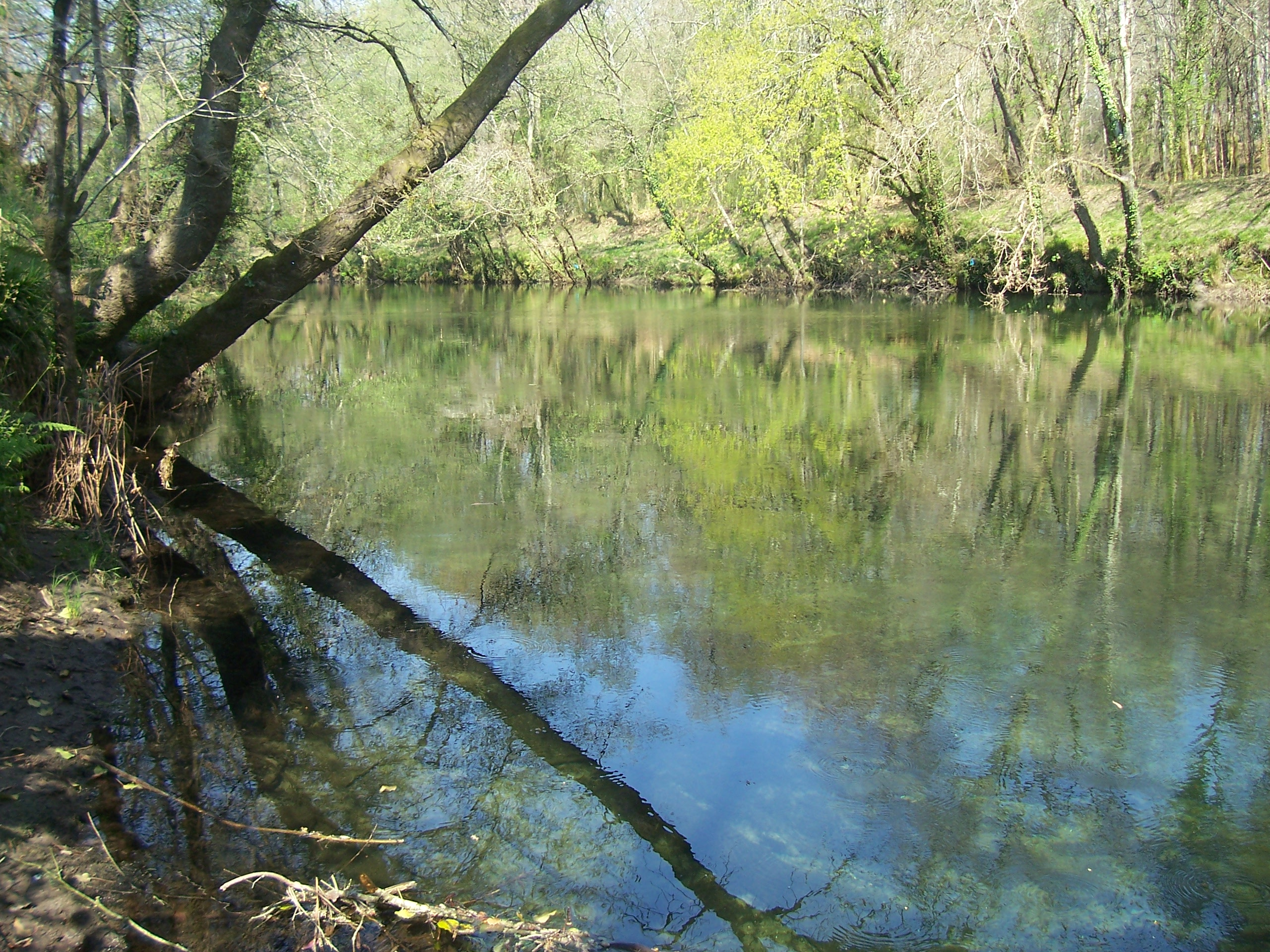 Tea river to its passage by Ribadetea (Ponteareas, España).